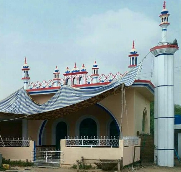 I also Uploaded this Photo on Botala Facebook Page & on website